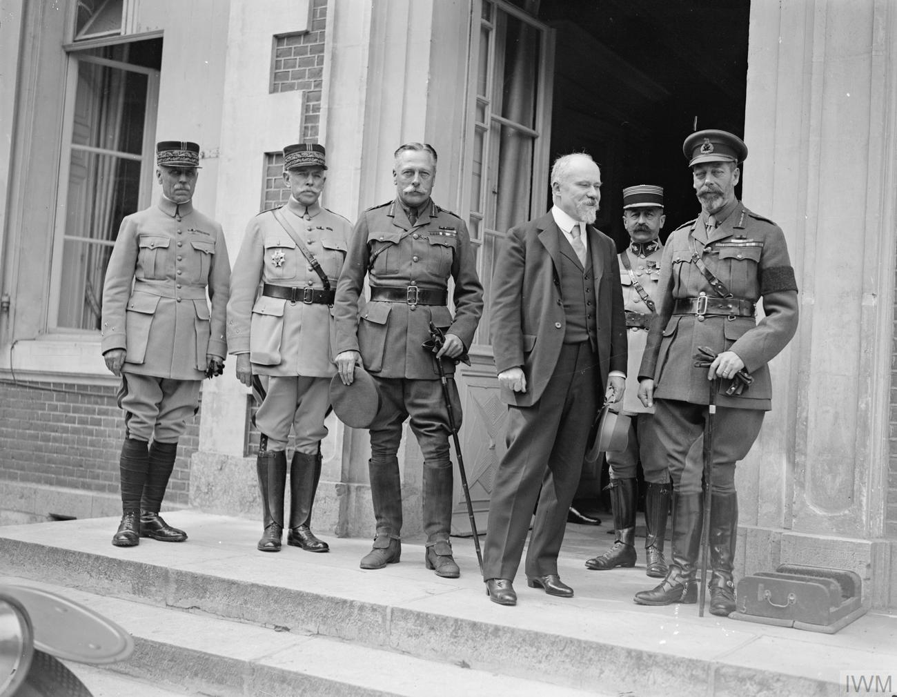 The Official Visits To the Western Front, 1914-1918 King George V, French President Raymond Poincare and Field Marshal Douglas Haig at GHQ at Montreuil, 7 August 1918.